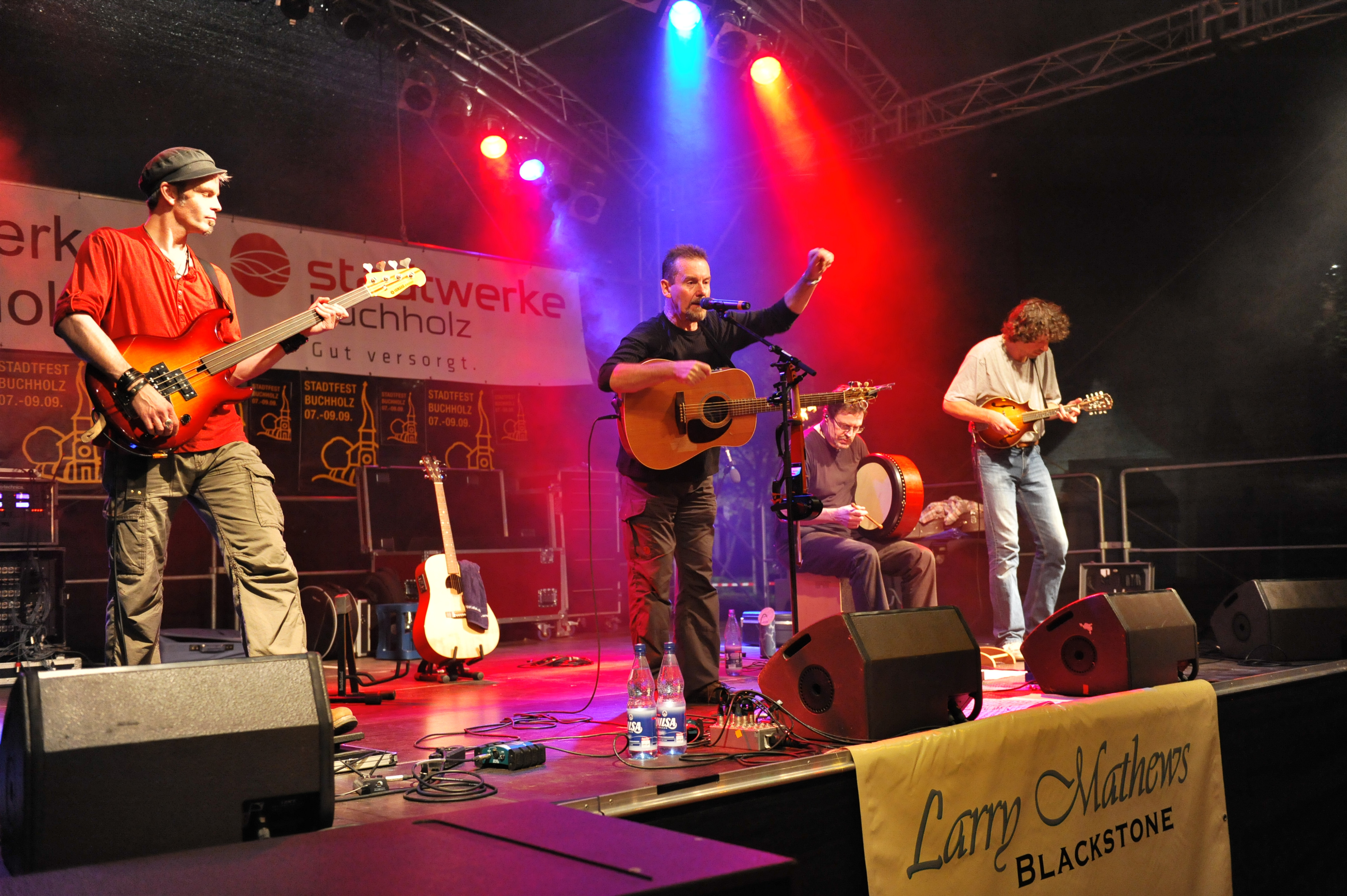 Larry Mathews Blackstone, Stadtfest Buchholz in der Nordheide, 9. Sept. 2012; from left to right: Andreas Schmidt (bass), Larry Mathews (vocals, guitar, fiddle), Bernd Haseneder (bodhrán, cajón), Ralph Bühr (guitar, mandolin, backing vocals)